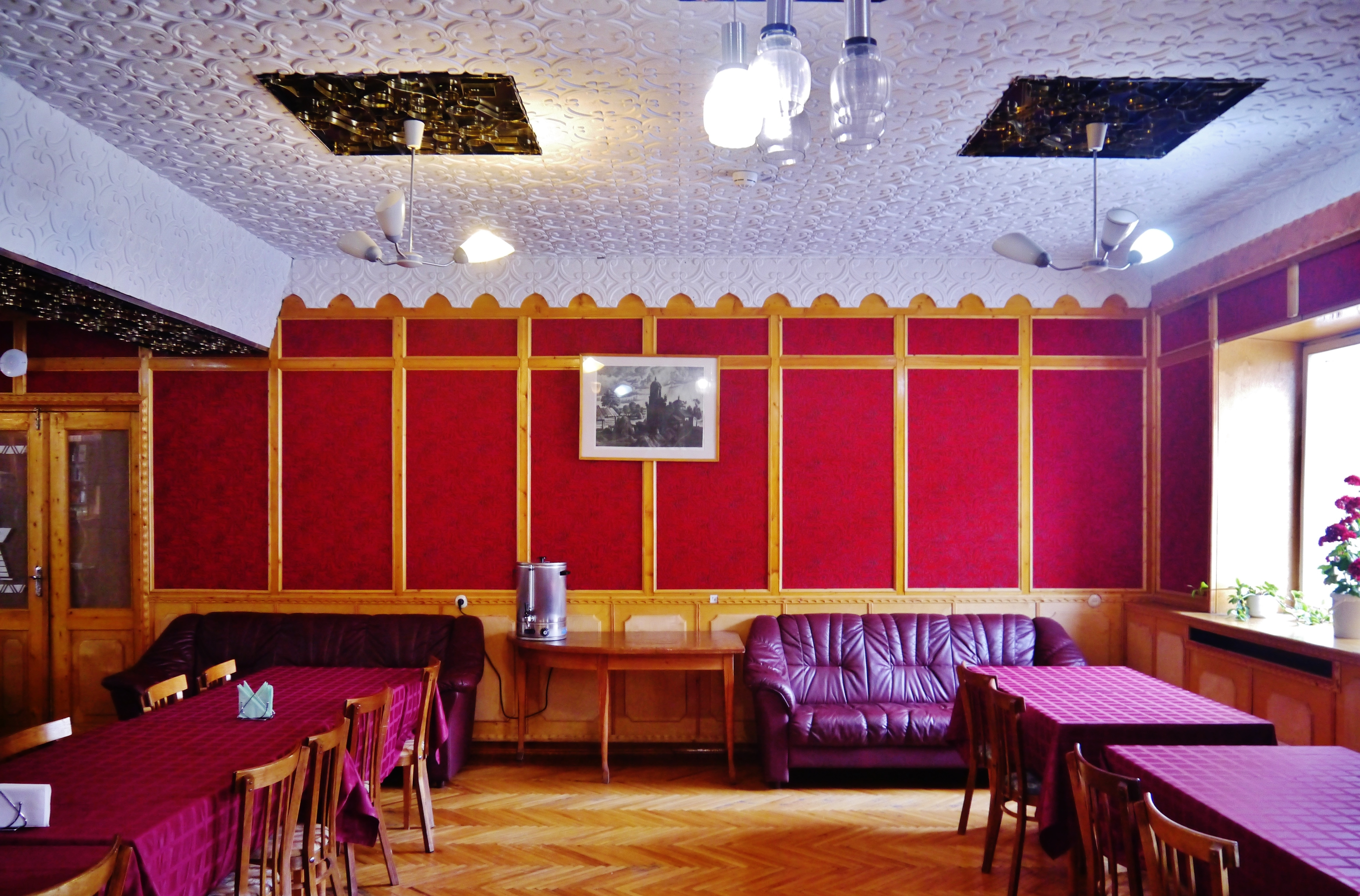 the Hotel at Pyramiden, Spitsbergen, Norway